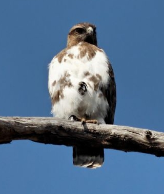 Madagascar Buzzard (Buteo brachypterus). Madagascar, near Kirindy.